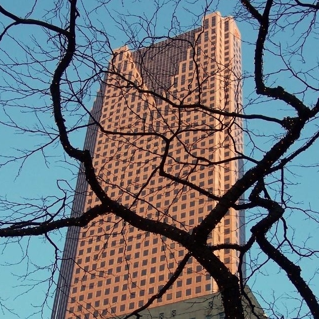 View of the Scotia Plaza tower from across the street at the TD Centre